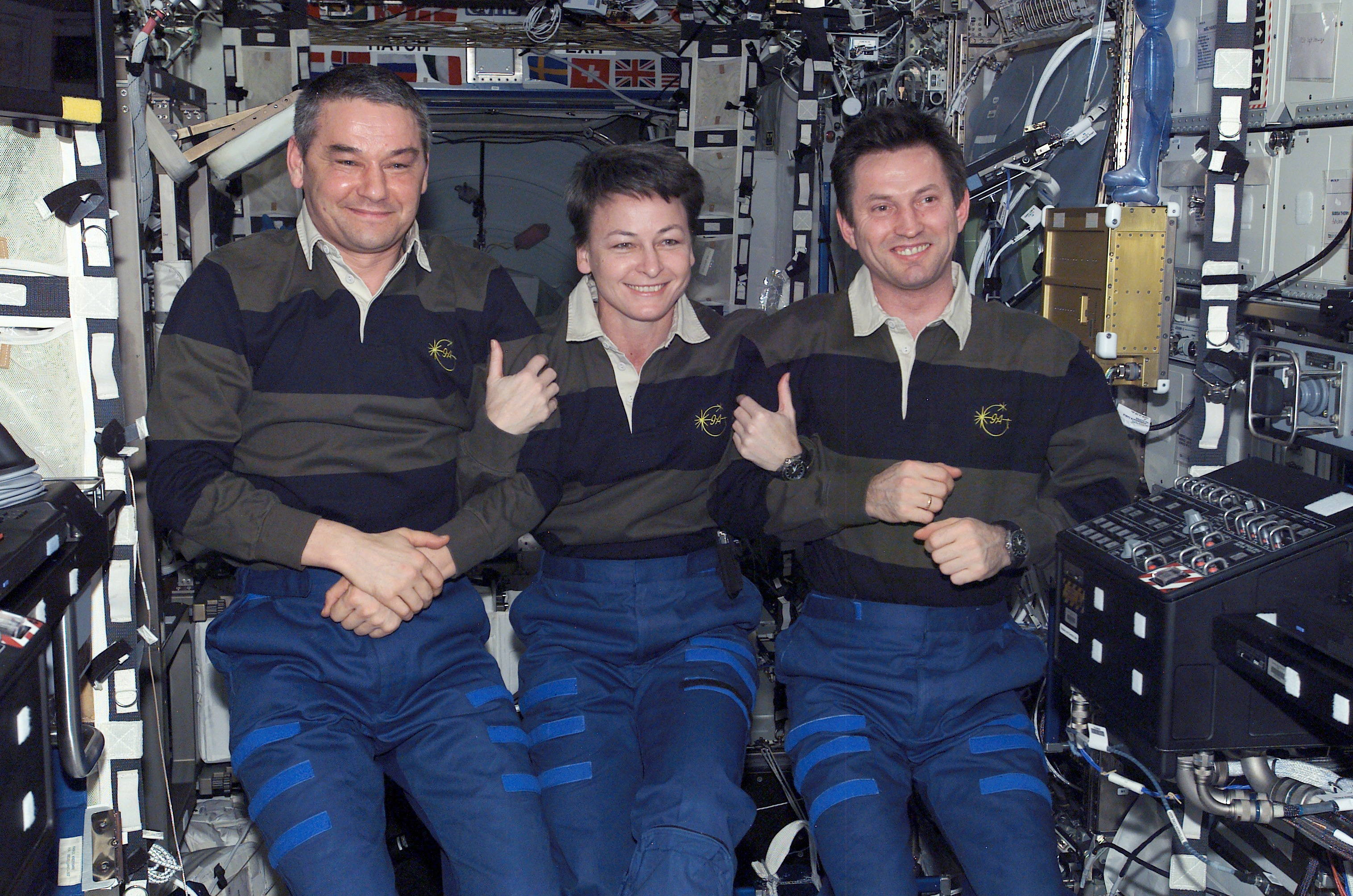 ISS005-E-17450 (13 October 2002) --- The Expedition Five crewmembers pose for a photo in the Destiny laboratory on the International Space Station (ISS). From the left are cosmonaut Valery G. Korzun, mission commander; astronaut Peggy A. Whitson and cosmonaut Sergei Y. Treschev, both flight engineers. Korzun and Treschev represent Rosaviakosmos.